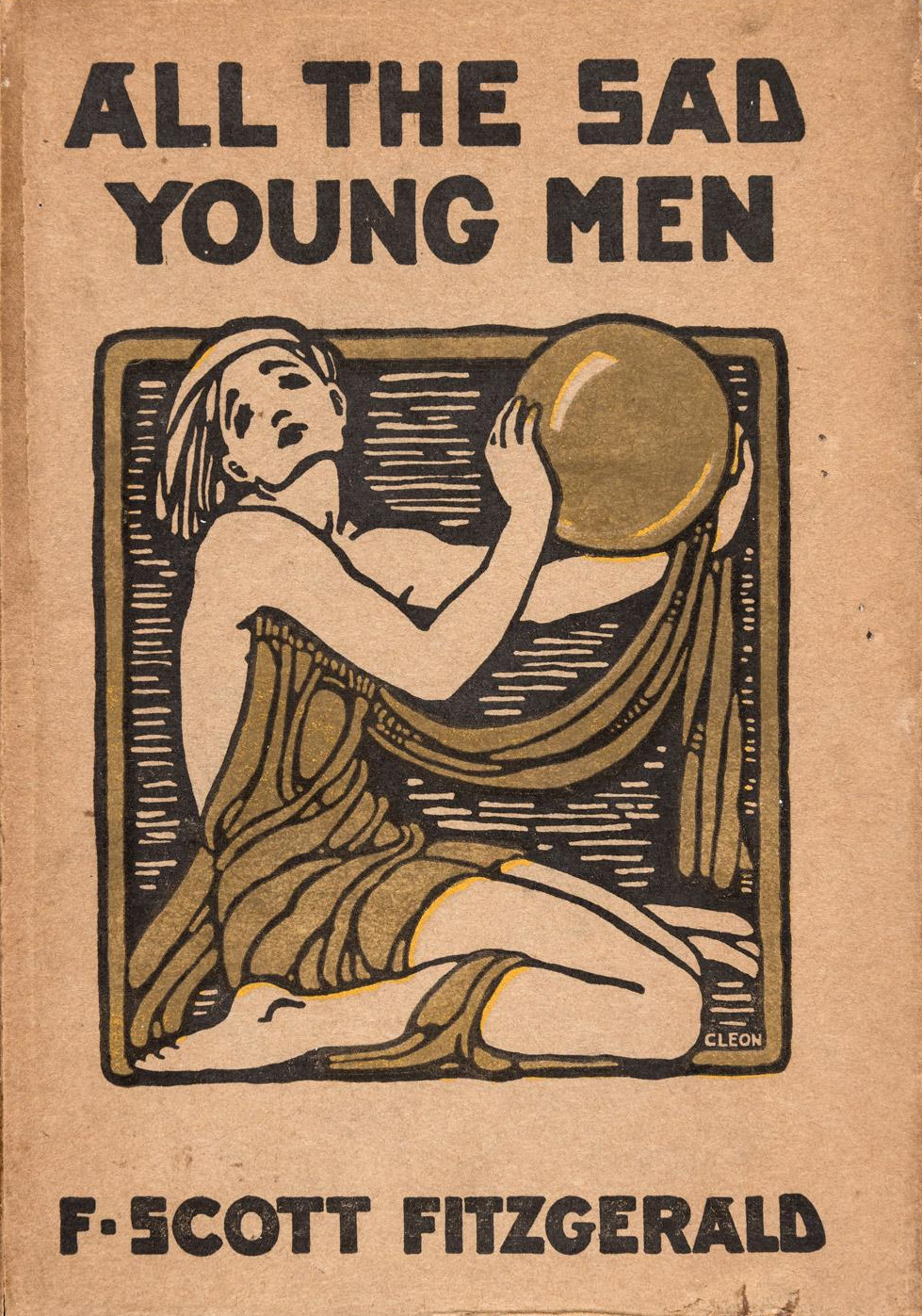 First-edition dust jacket cover of All the Sad Young Men (1926) by the American author F. Scott Fitzgerald.